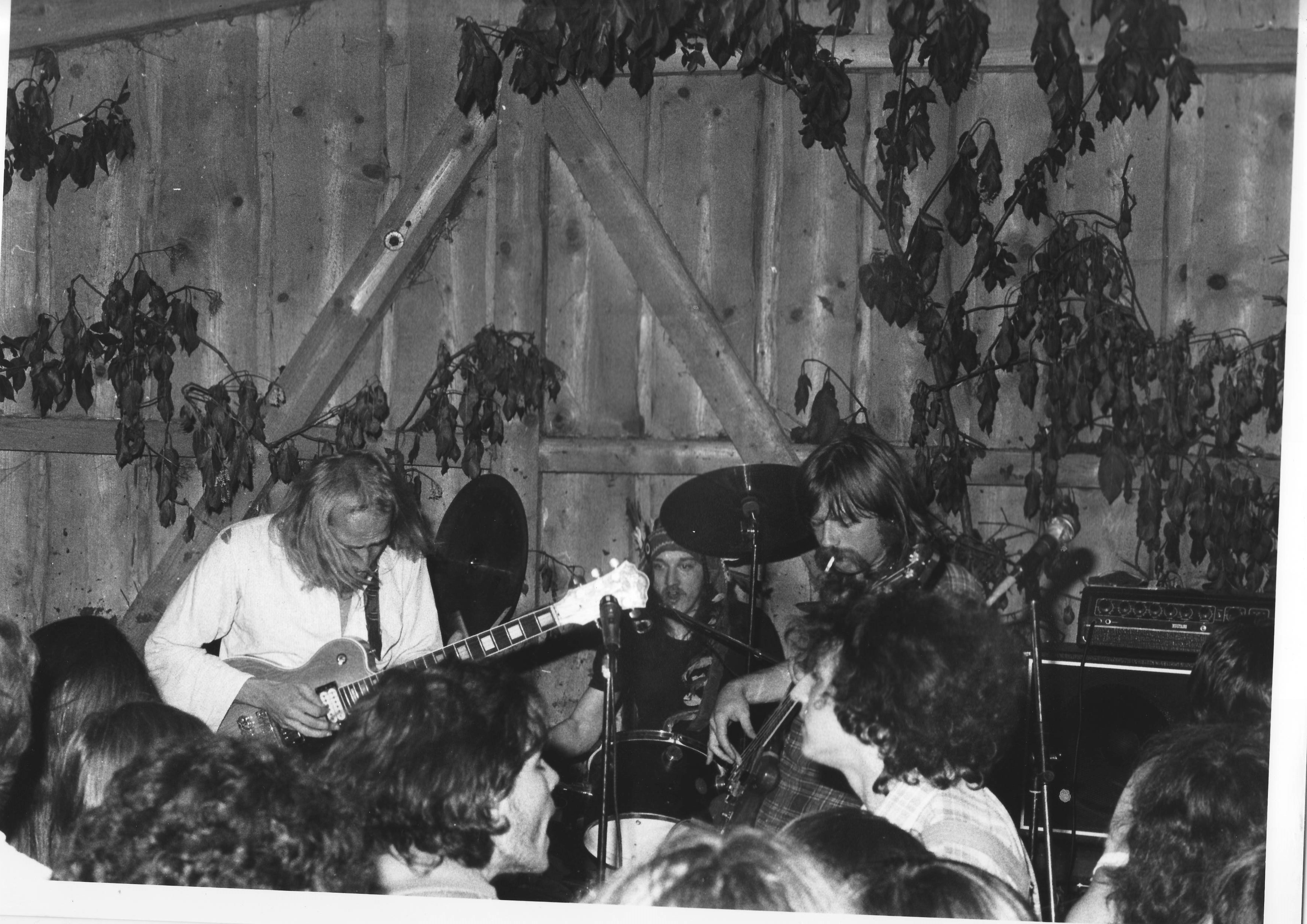 German dialekt rock group "Schwoissfuass" about 1980